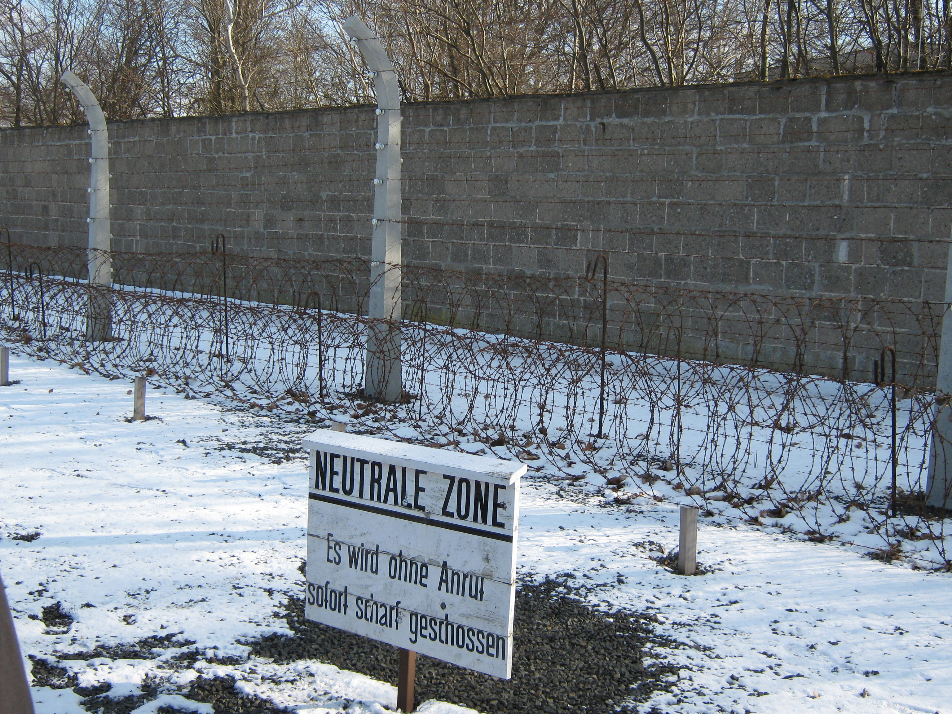 The wall at Sachenhausen concentration camp